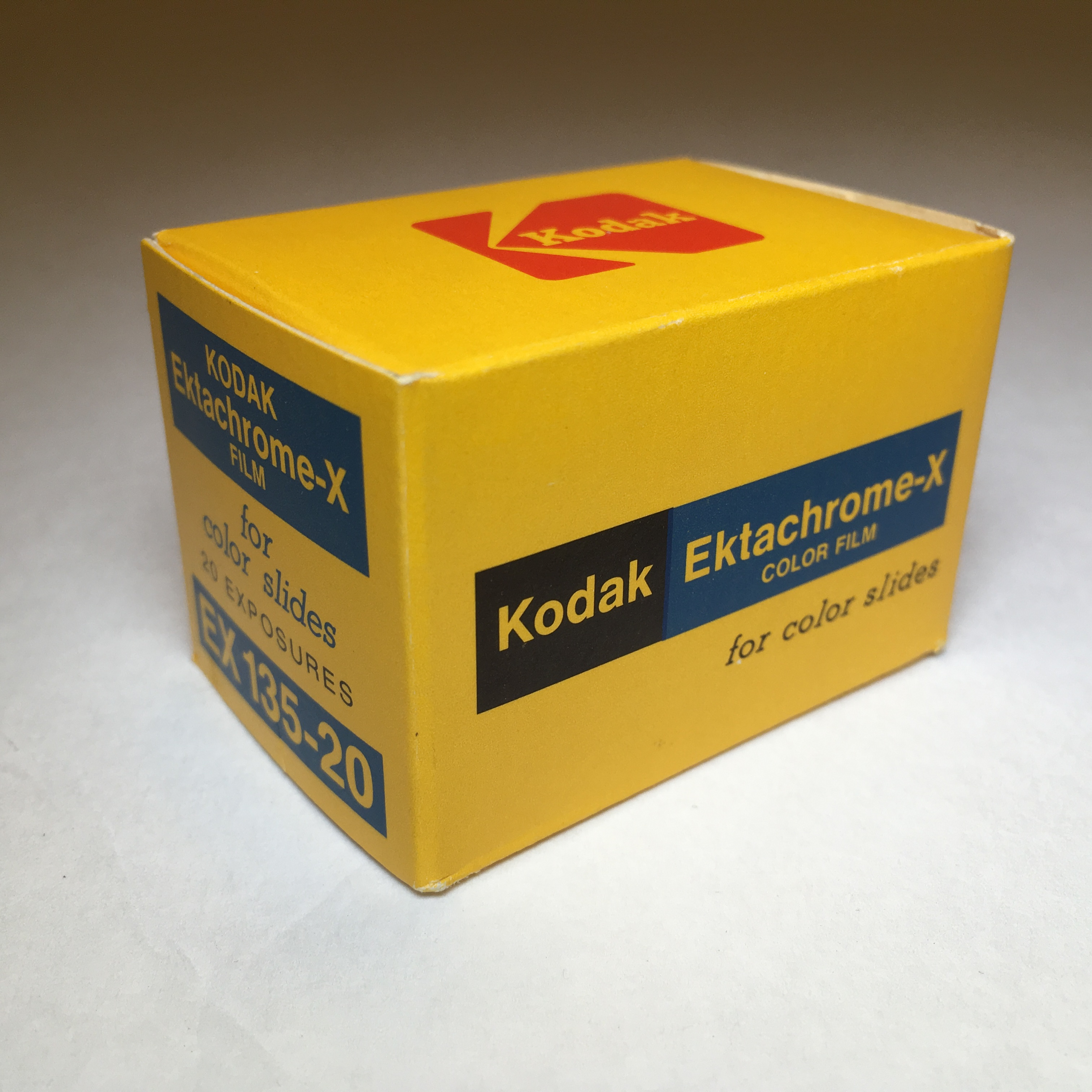 Kodak Ektachrome-X Film